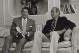 Ronald Reagan sits with Allen Drury in Presidential Suite of Century Plaza Hotel in 1981